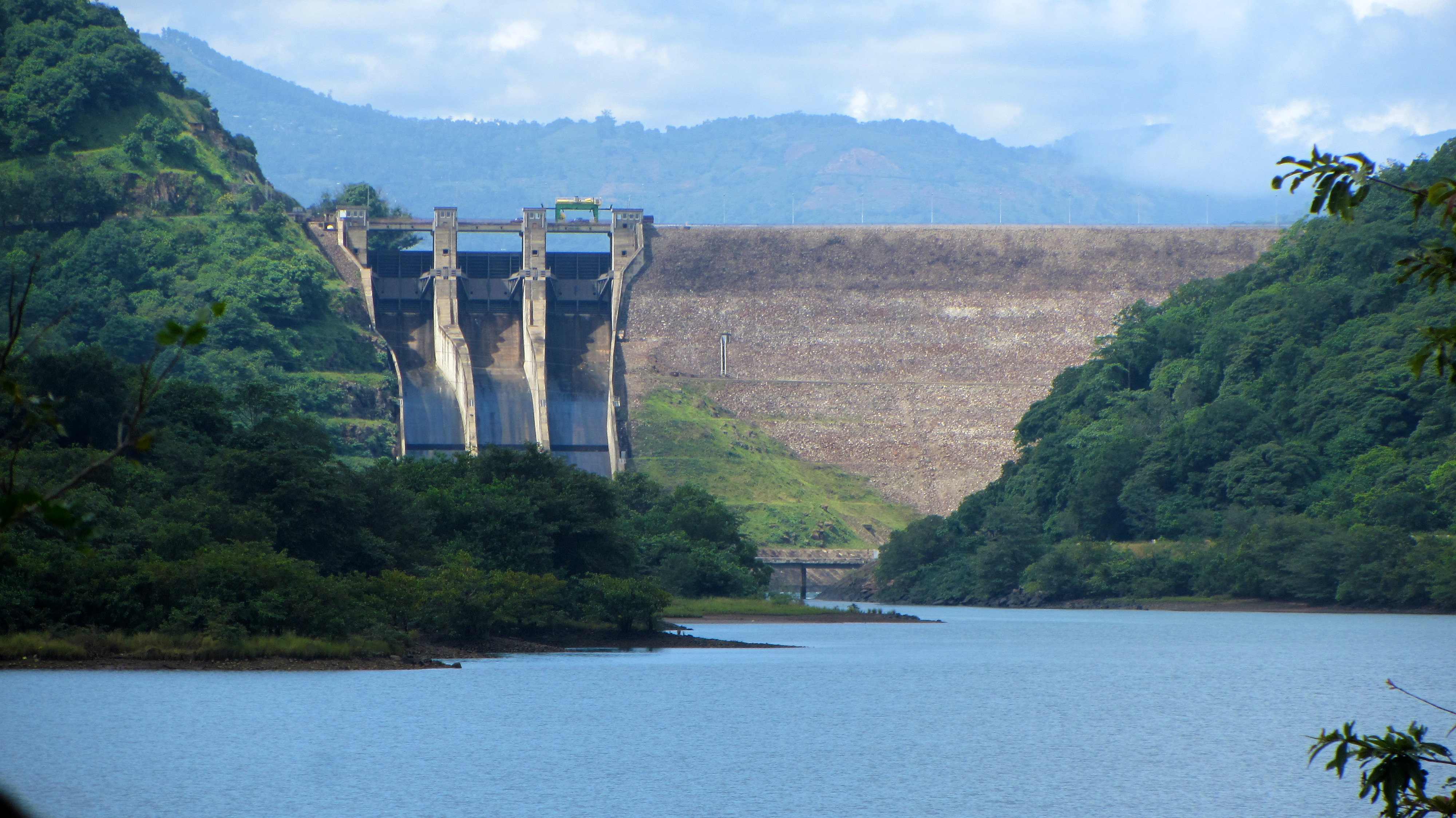 View of the Randenigala Dam and its spillways from downstream. Rantembe, Sri Lanka.